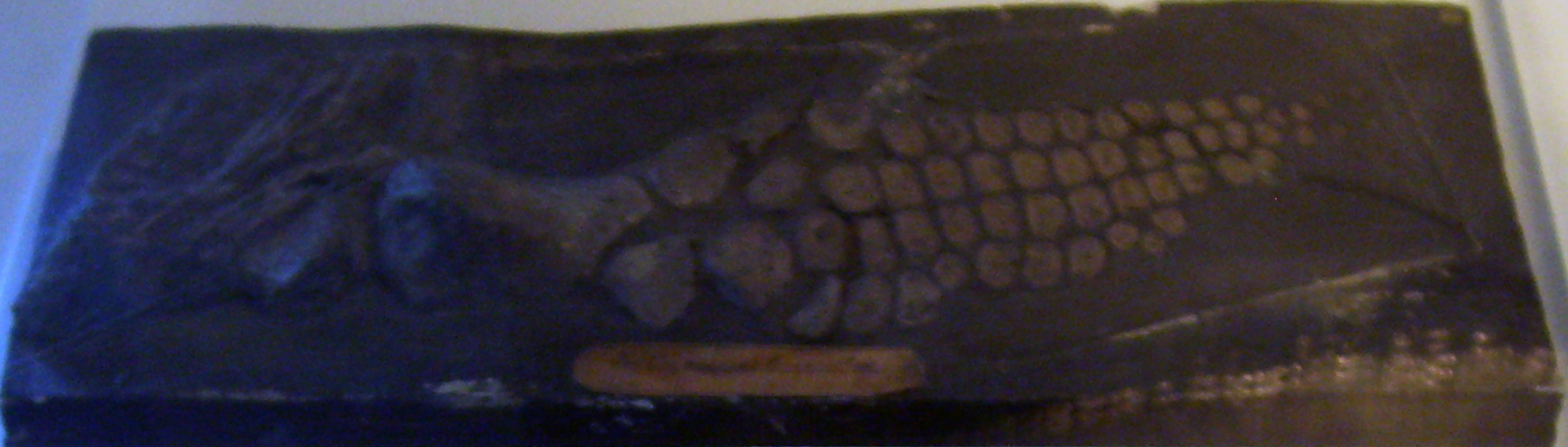 Leptonectes tenuirostris front paddle at the Geological Museum in Copenhagen.